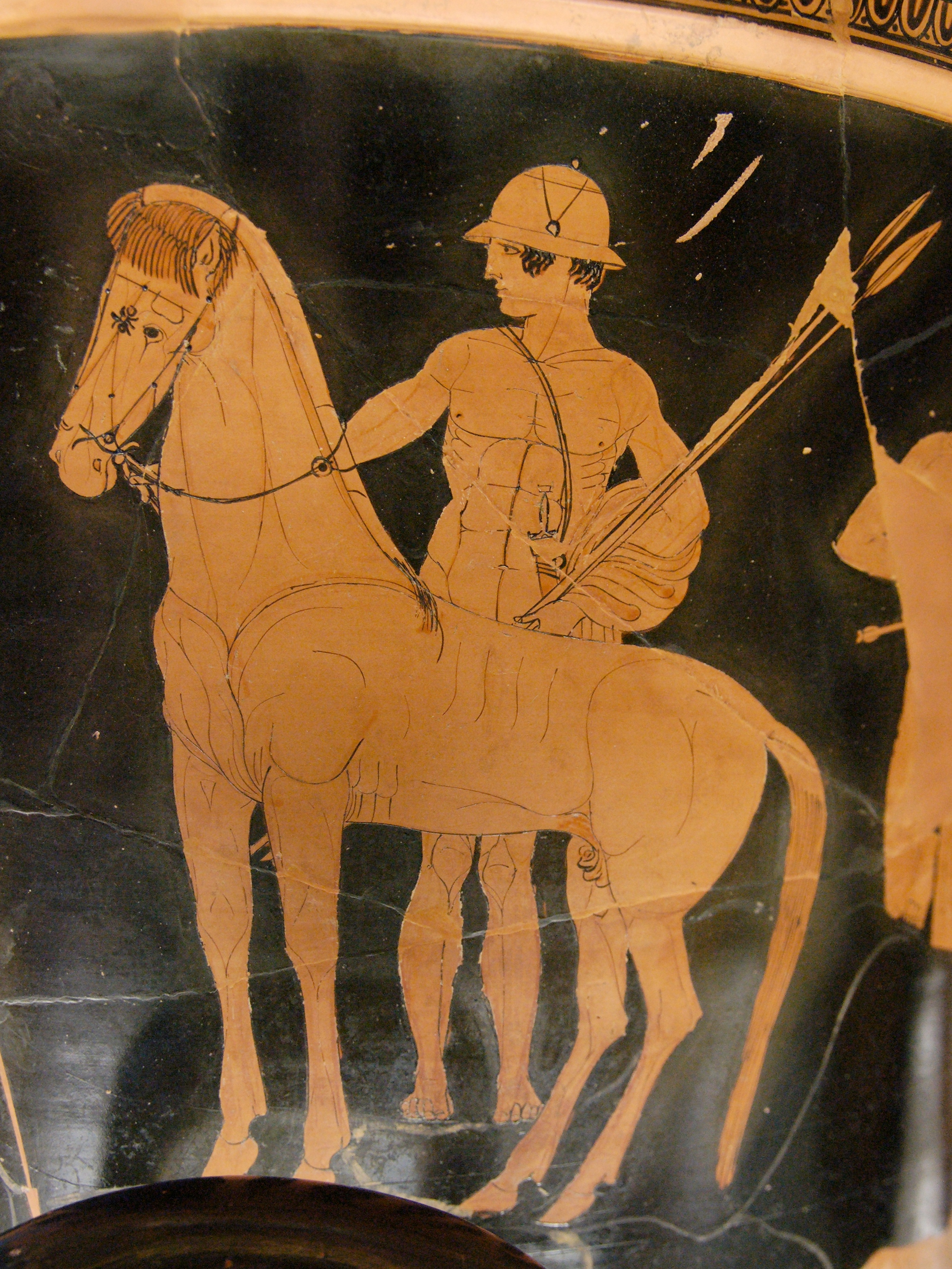 Kastor wearing a pilos-like helmet, detail from a scene representing the gathering of the Argonauts (?). Side A from an Attic red-figure calyx-krater, ca. 460–450 BC. From Orvieto (Volsinii).